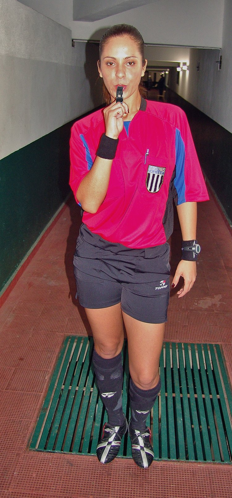 Brazilian refereer Ana Paula Oliveira.